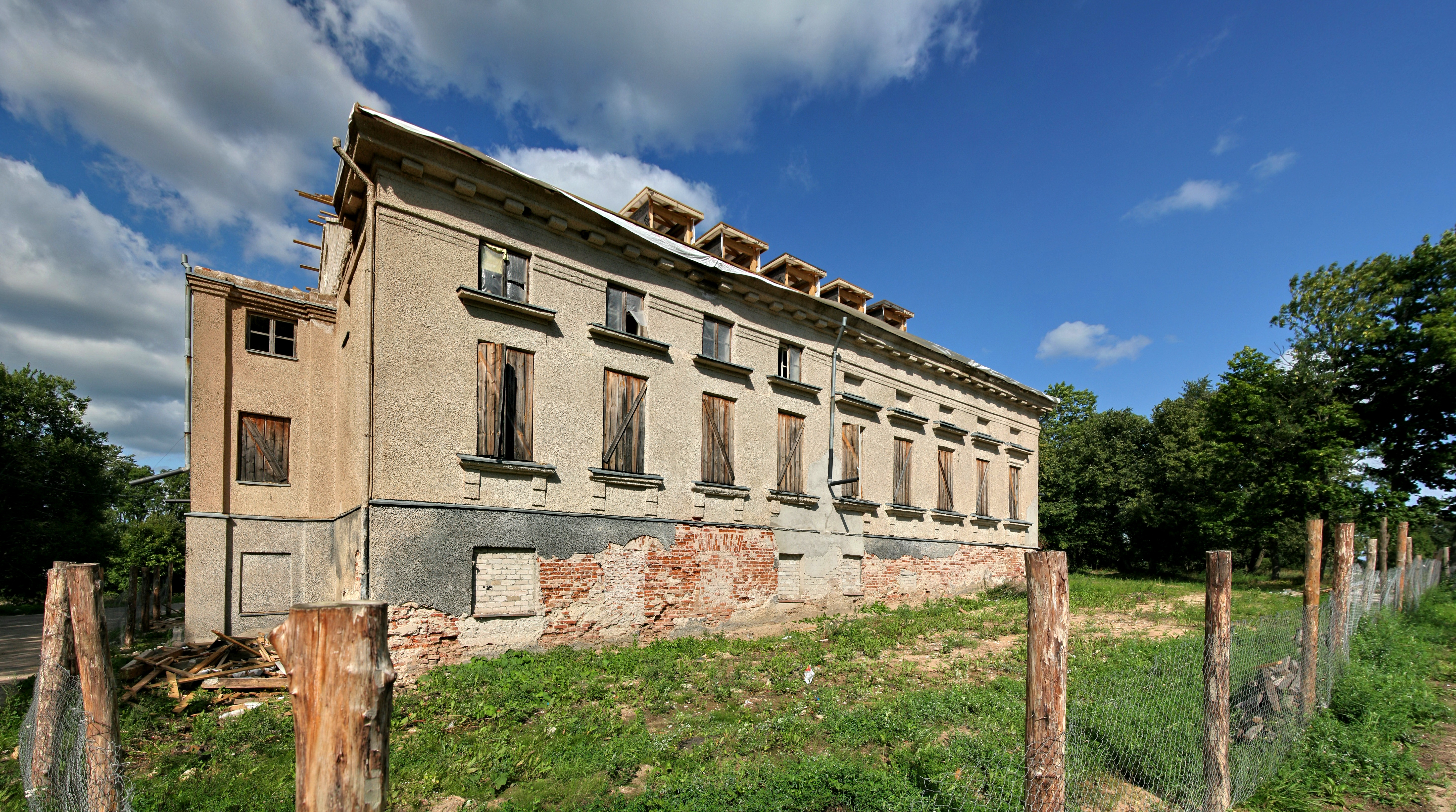 Krikštėnai Manor